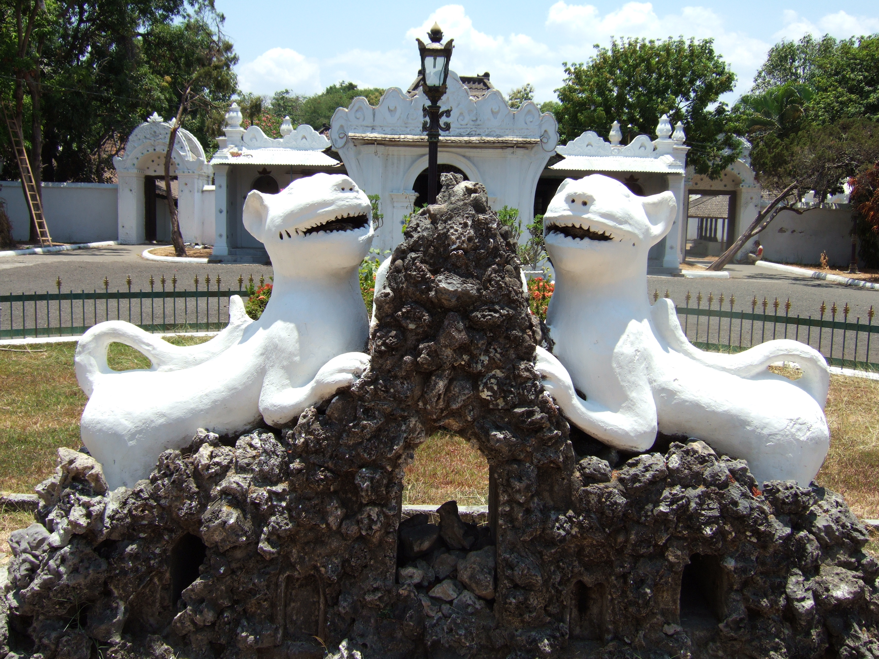 Garden at Keraton Kasepuhan, Cirebon, Indonesia